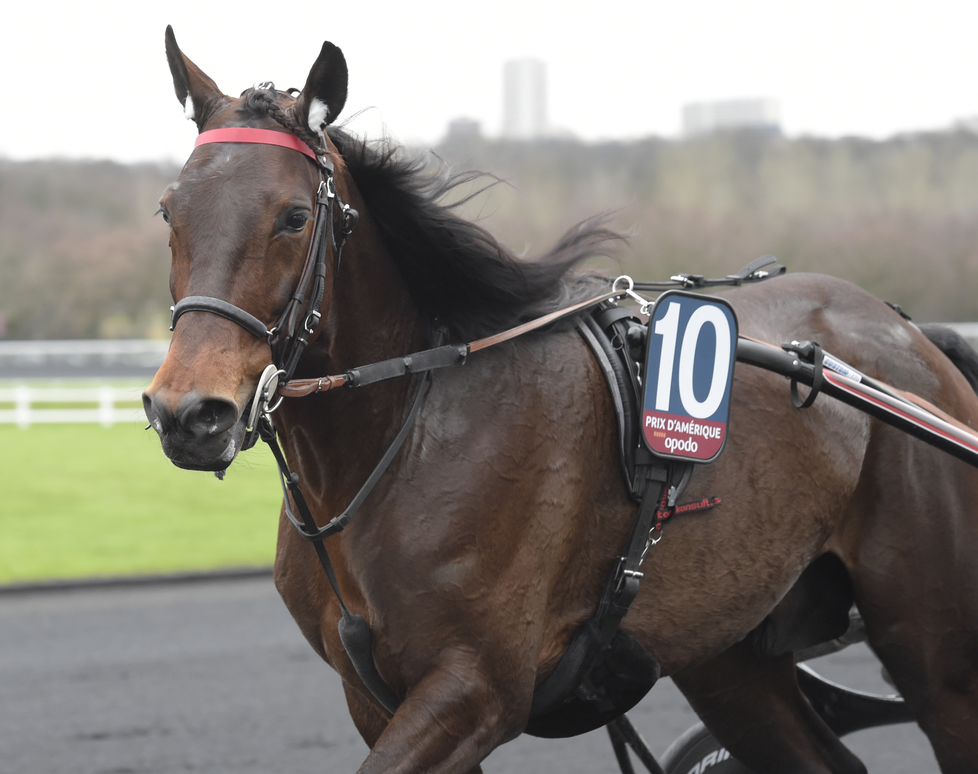 Bold Eagle at Vincennes Hippodrome.